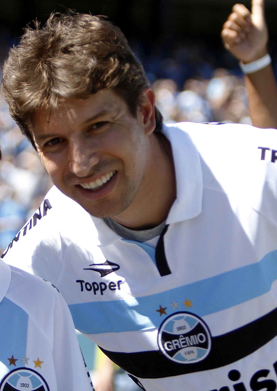 PORTO ALEGRE, RS - FUTEBOL - 02.12.2012 - Tcheco durante a homenagem do Grêmio para os seus jogadores antes do GRENAL deste domingo, as 17h, no último jogo do Estádio Olímpico. A equipe tricolor se despede do velho Monumental para jogar na Arena Porto-Alegrense a partir do próximo final de semana, dia 08, numa partida amistosa contra o Hamburgo-ALE. Foto: Guilherme Testa